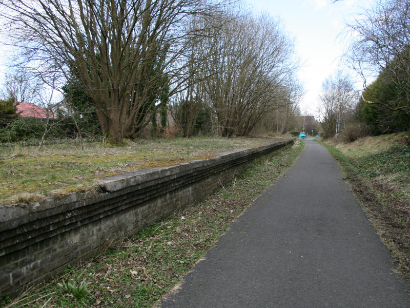 The remaining platform at Kilbarchan looking north east. You can see the bridge over Low Barholm, the main road through Kilbarchan. In past years, many of the rail-over-road bridges along this disused line have been painted in the bright turquoise seen here.